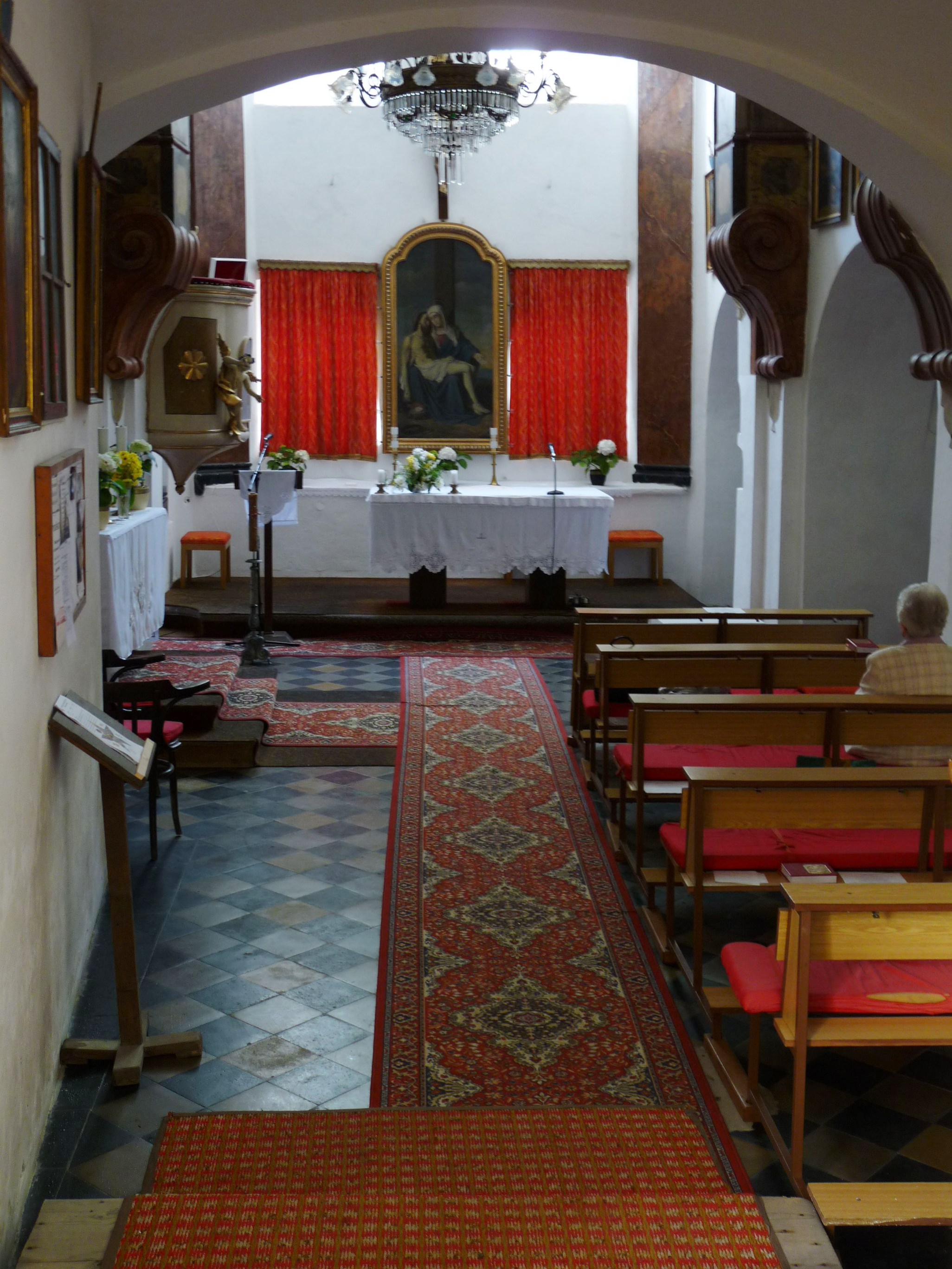 Castle chapel in the town of Stádlec, Tábor District, South Bohemian Region, Czech Republic.